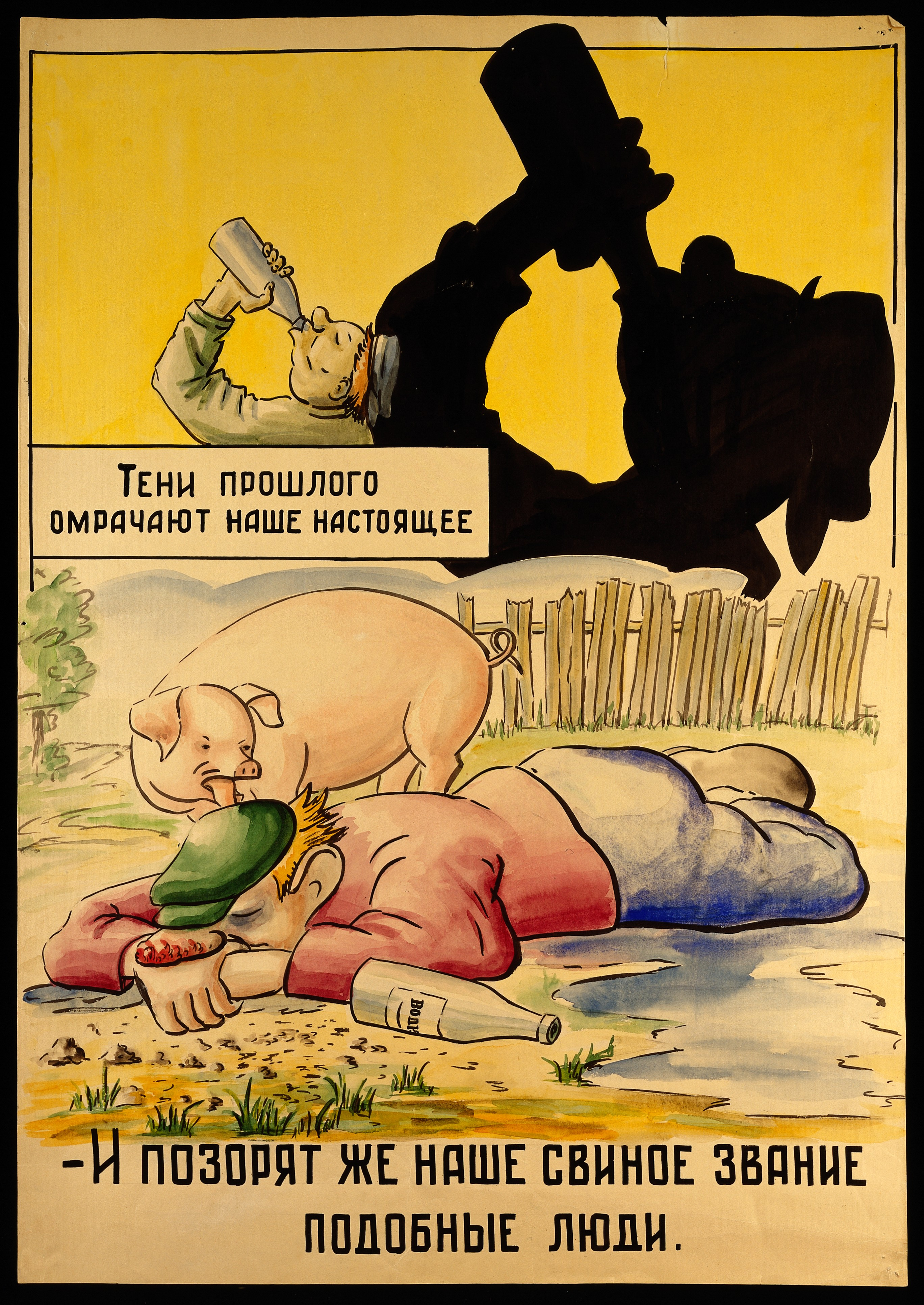 A drunk man in Russia likened to a pig: his silhouette is swinish and he is licked by a pig when he lies dead drunk with vodka. Watercolour, 195-. Iconographic Collections Keywords: Alcohols; PIG; ALCOHOL; DRUNK